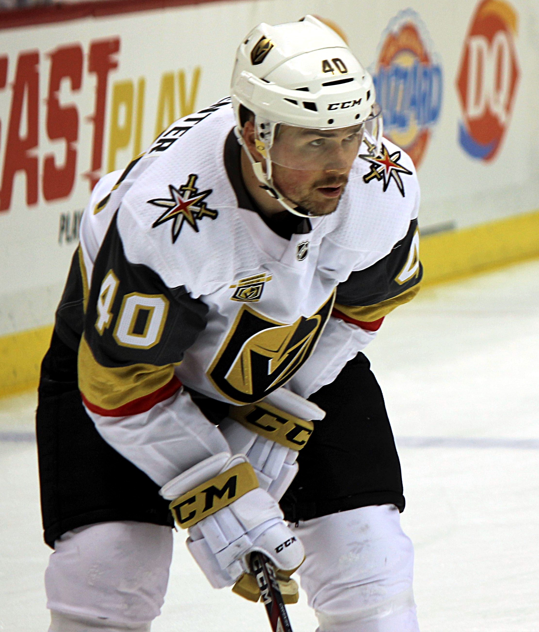 Vegas Golden Knights forward during a game against the Pittsburgh Penguins, February 6, 2018, at PPG Paints Arena in Pittsburgh, PA.